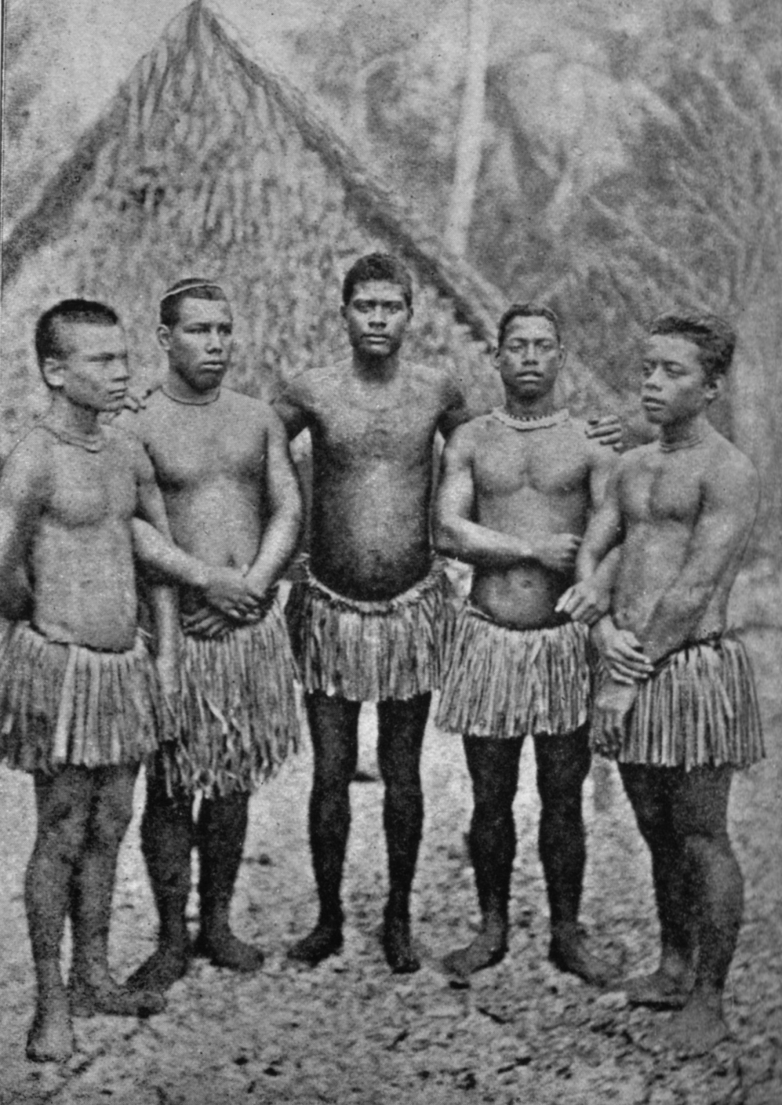 Young Nauruan people, Nauru